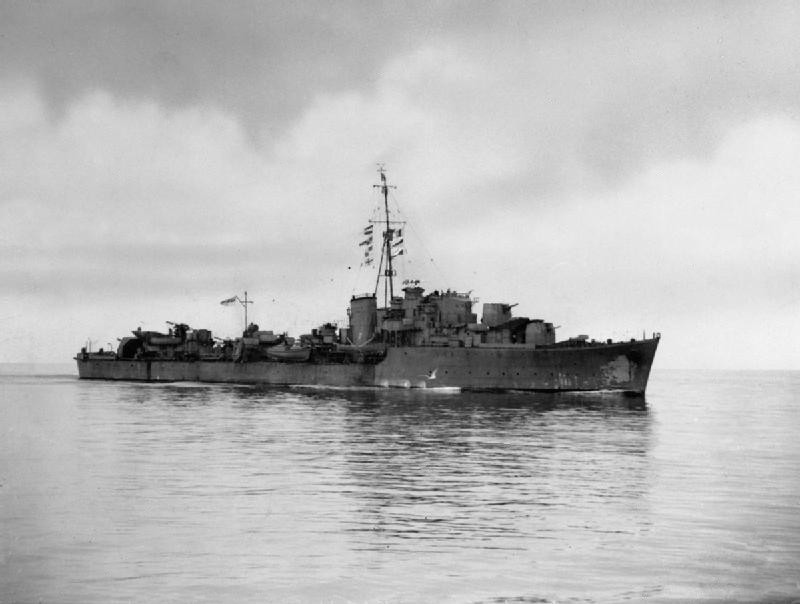 from IWM caption : Photograph of British destroyer HMS Panther coming into Hvalfjord in Iceland after completing a patrol in the North Atlantic in search of the German battleship TIRPITZ.